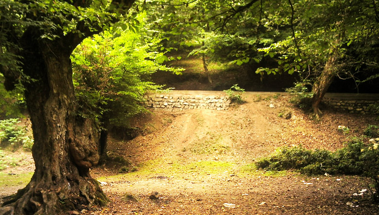 Forest in mazandaran